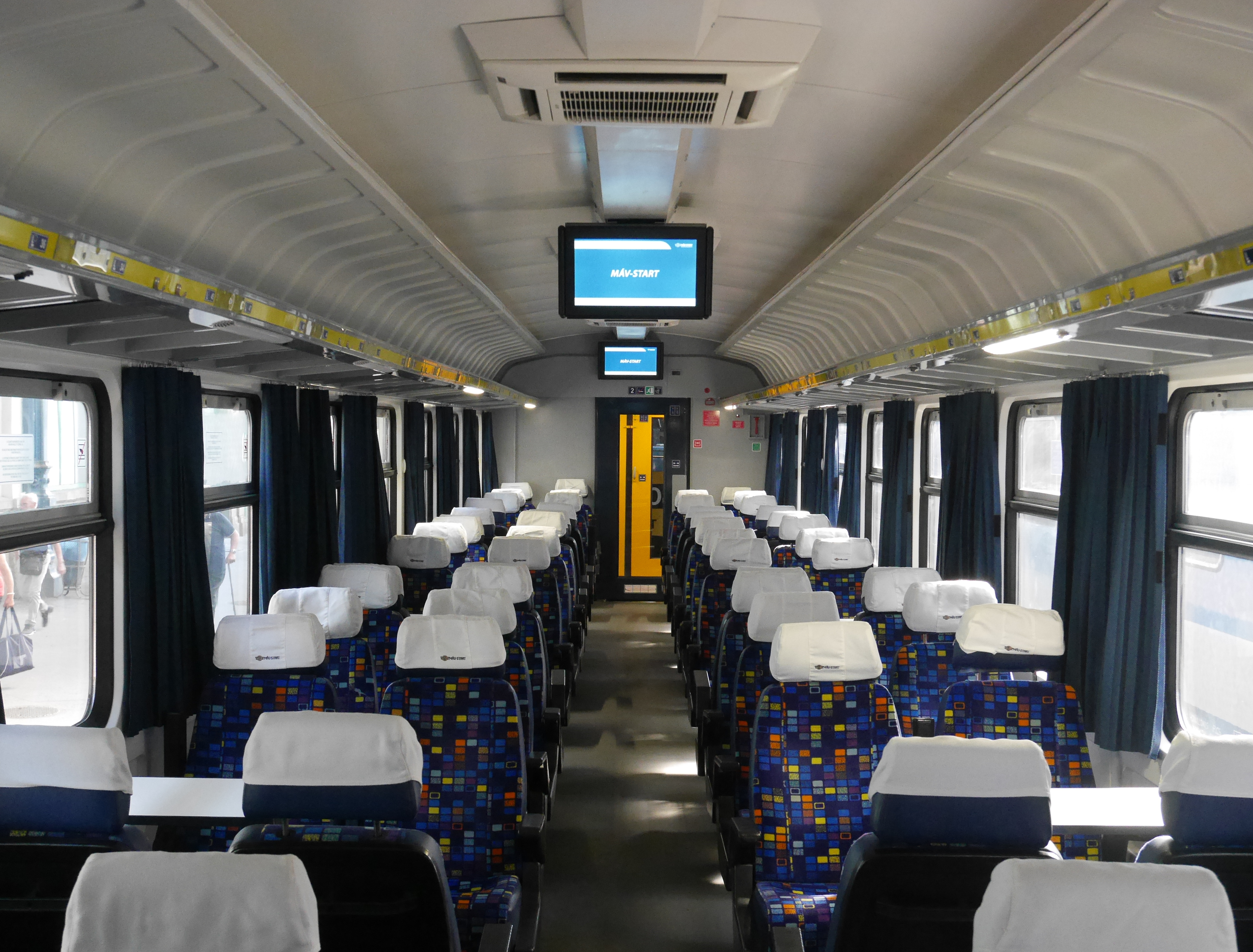 Interior of MÁV-Start’s IC coaches on InterCity train 615 from Nyíregyháza at Budapest-Nyugati station.